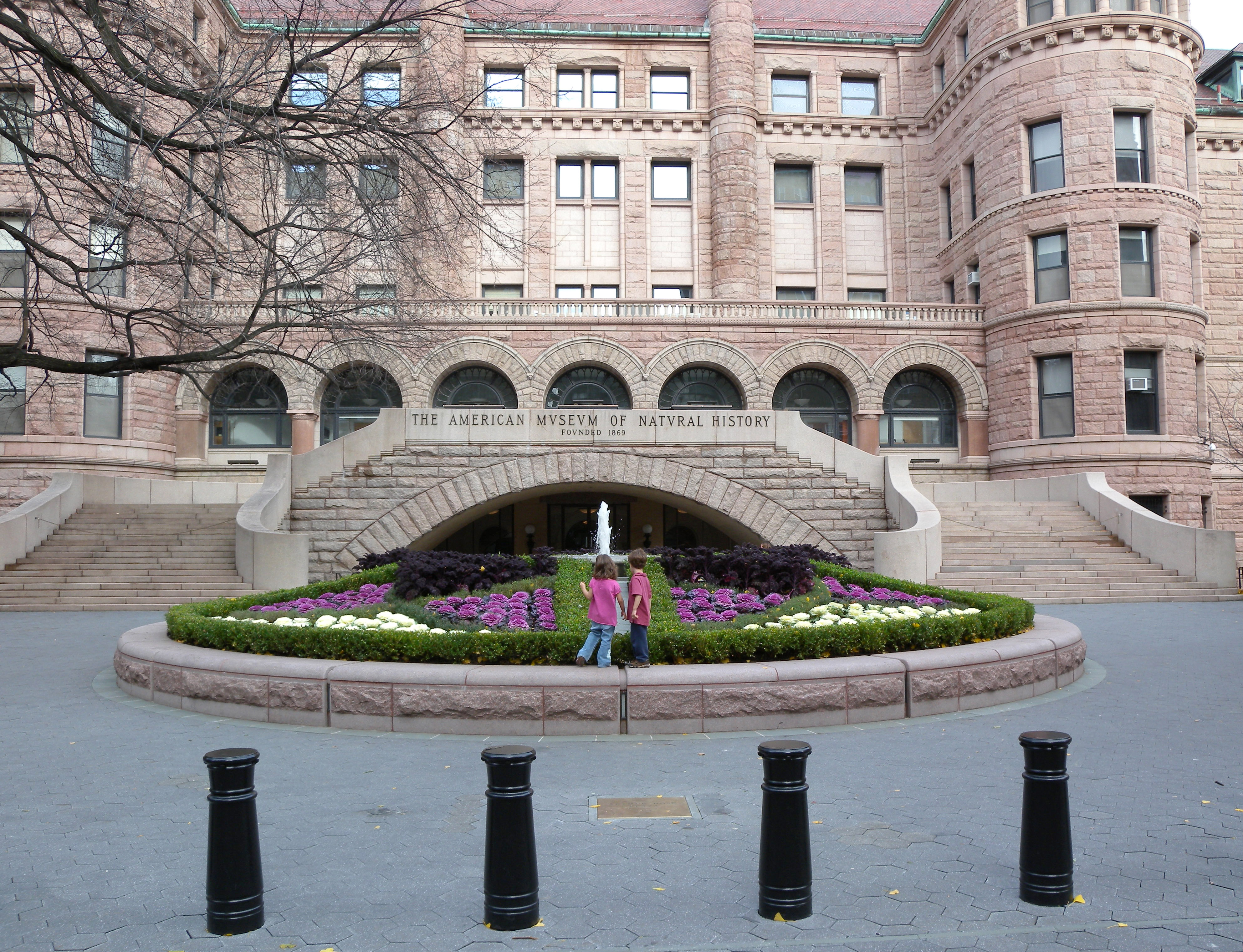 Looking north at flowerbed and south entrance of AMNH on a mostly sunny early afternoon.